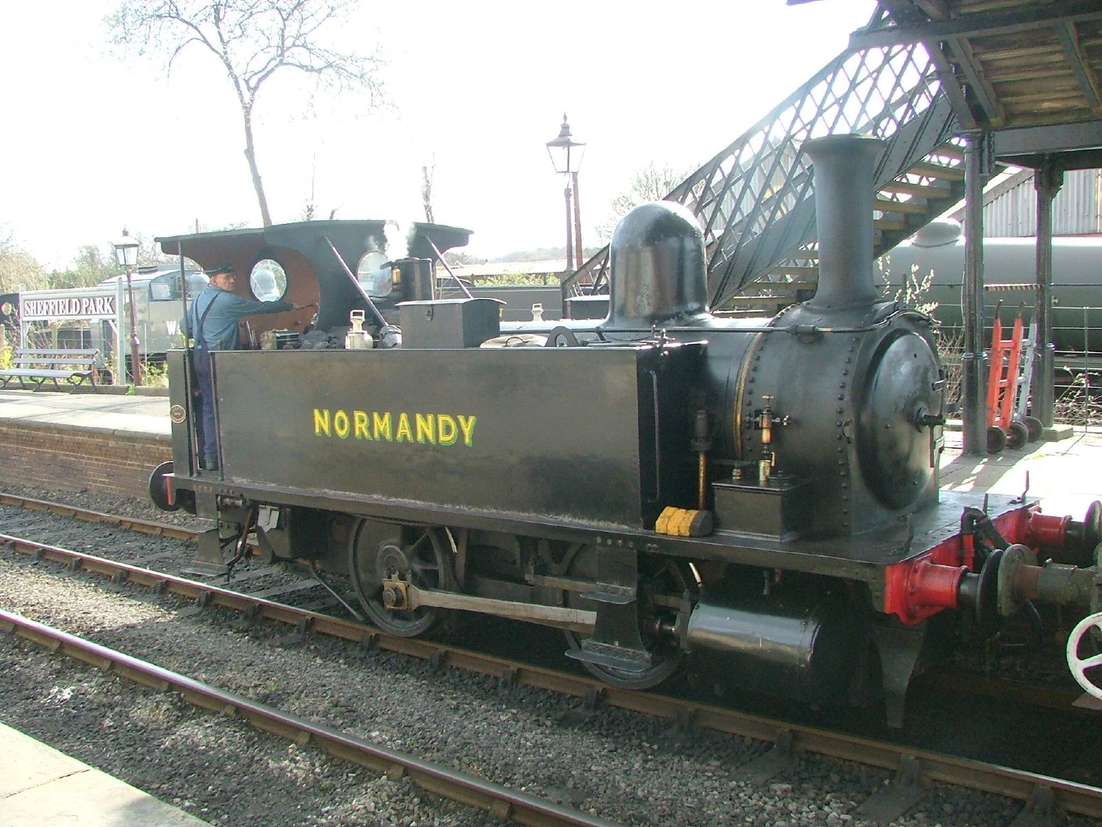 This little 040T was fussing around shunting wagon loads of various railway bits and pieces all day.